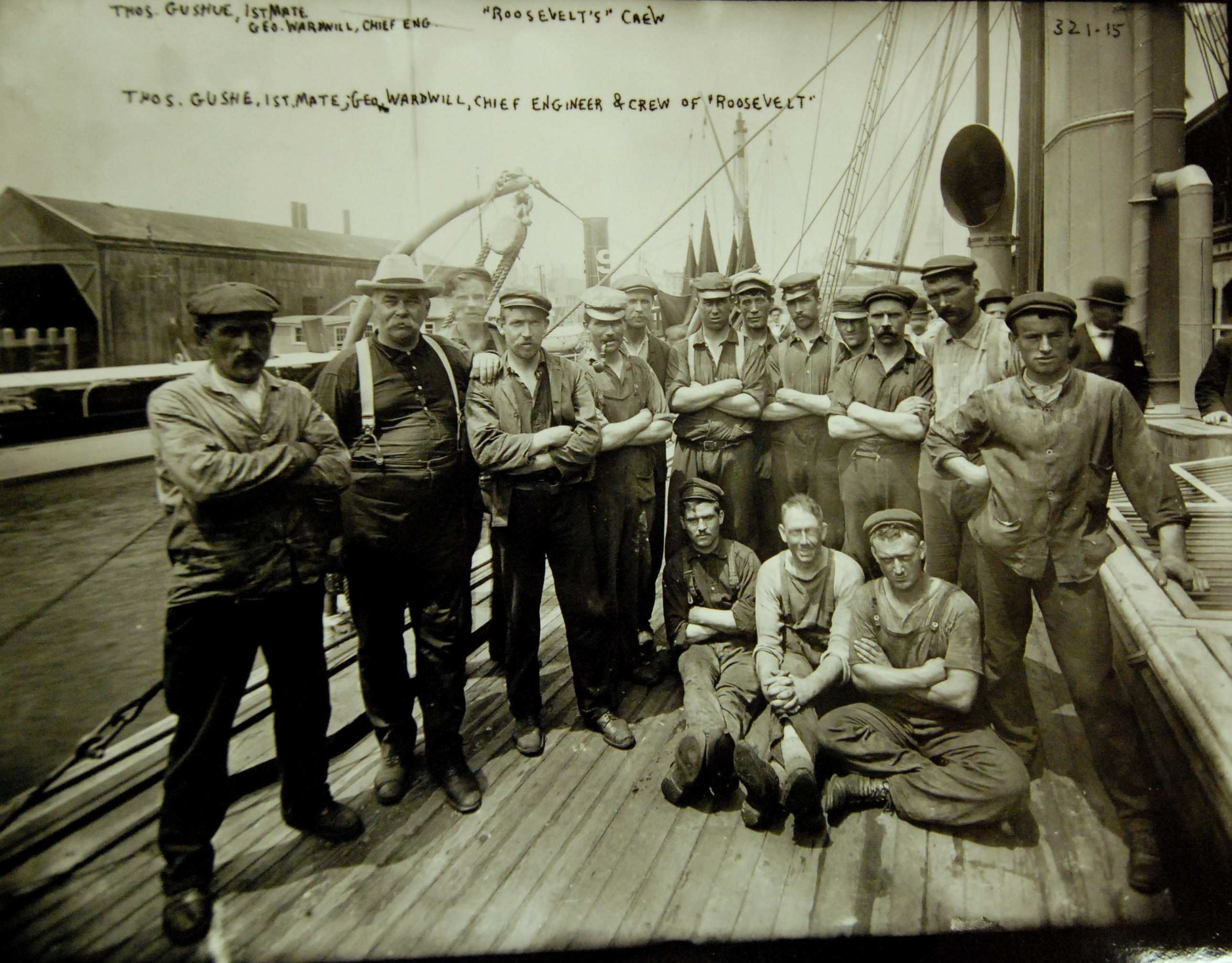 Lot 11059-5 (LC-DIG-GGBAIN-01497): Captain Robert Peary’s North Pole Expedition, 1905-06. First Mate Thomas Gushue, George Wardwill; Chief Enginner and the Crew of SS Roosevelt. George Bain Collection. (2015/10/16).